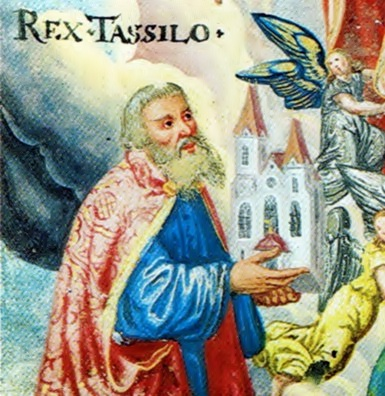 Herzog Tassilo III. von Bayern mit dem Modell der Stiftskirche Kremsmünster